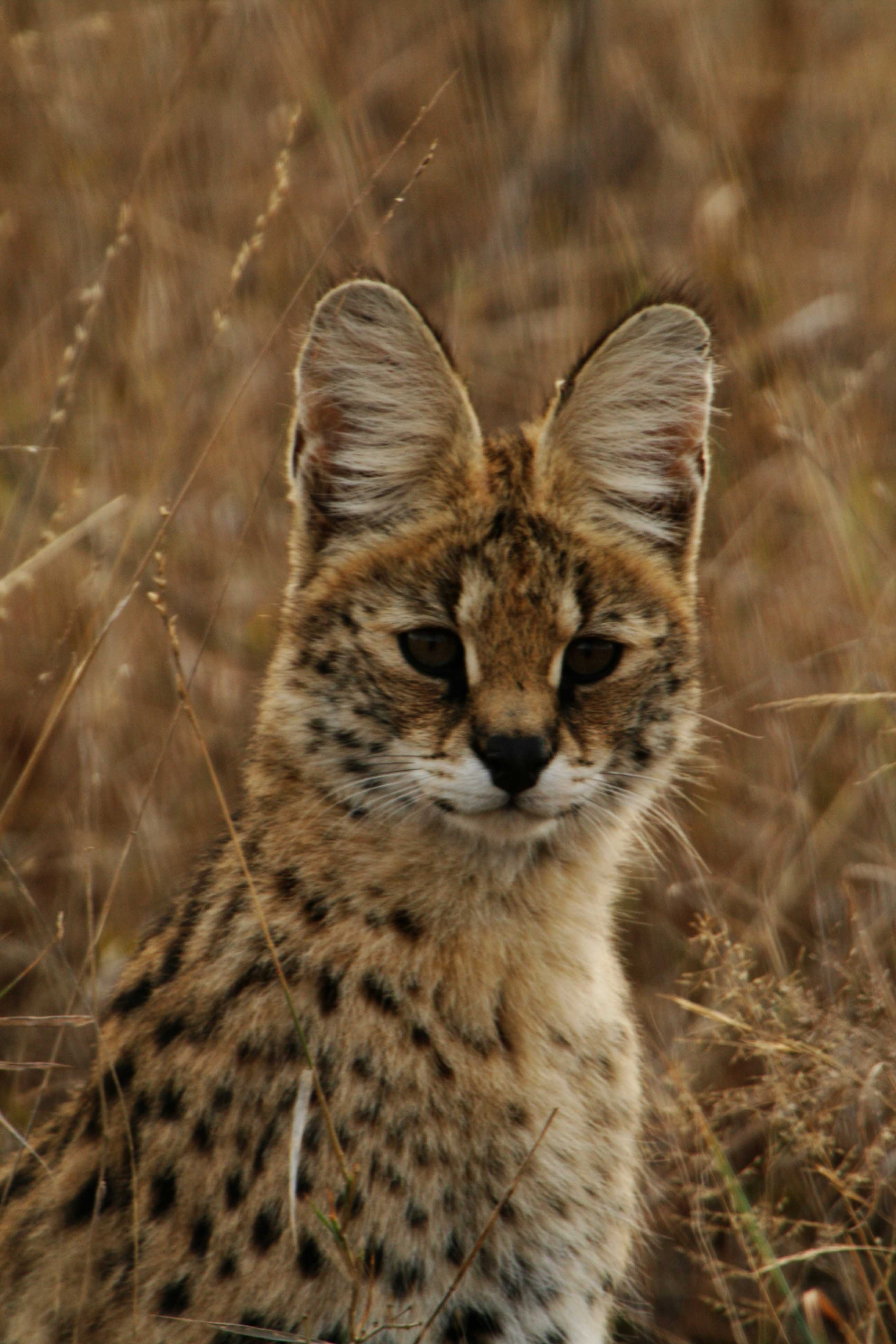 Serval portrait taken in Sabi Sands July 2007 by Lee R. Berger.